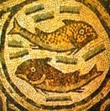 Detail from a mosaic in the Early Christian basilica in Ohrid (5th - 6th century).